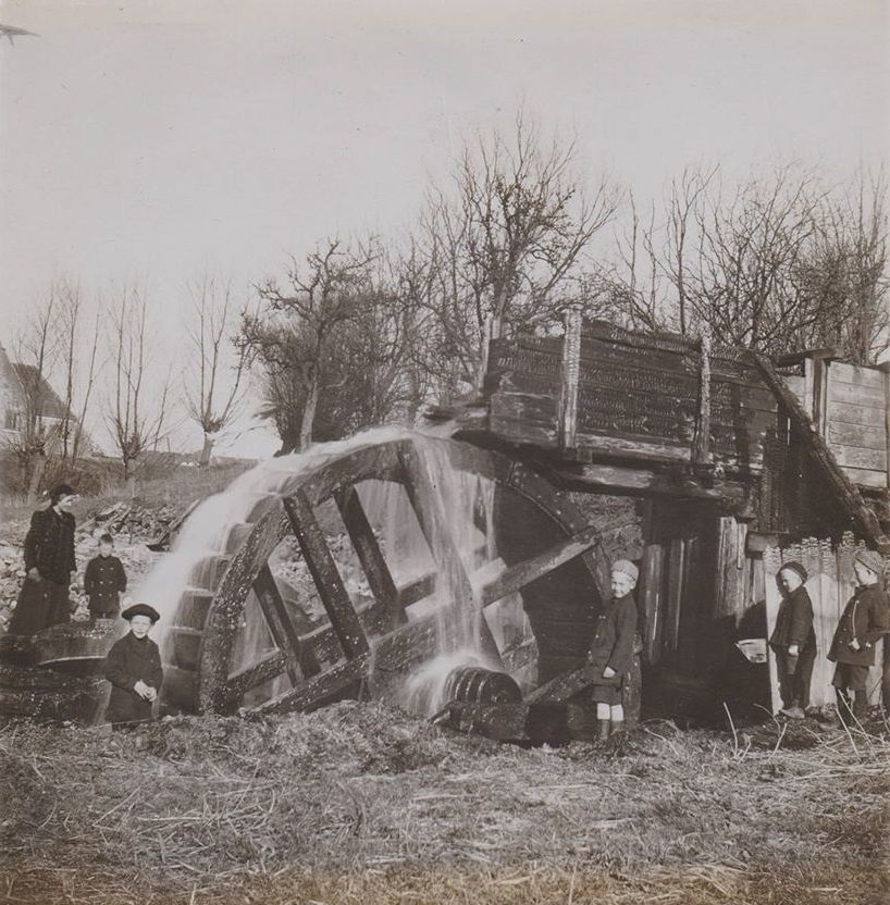 Garaldsborg Watermill after the fire in 1909 at Roskilde, Denmark.